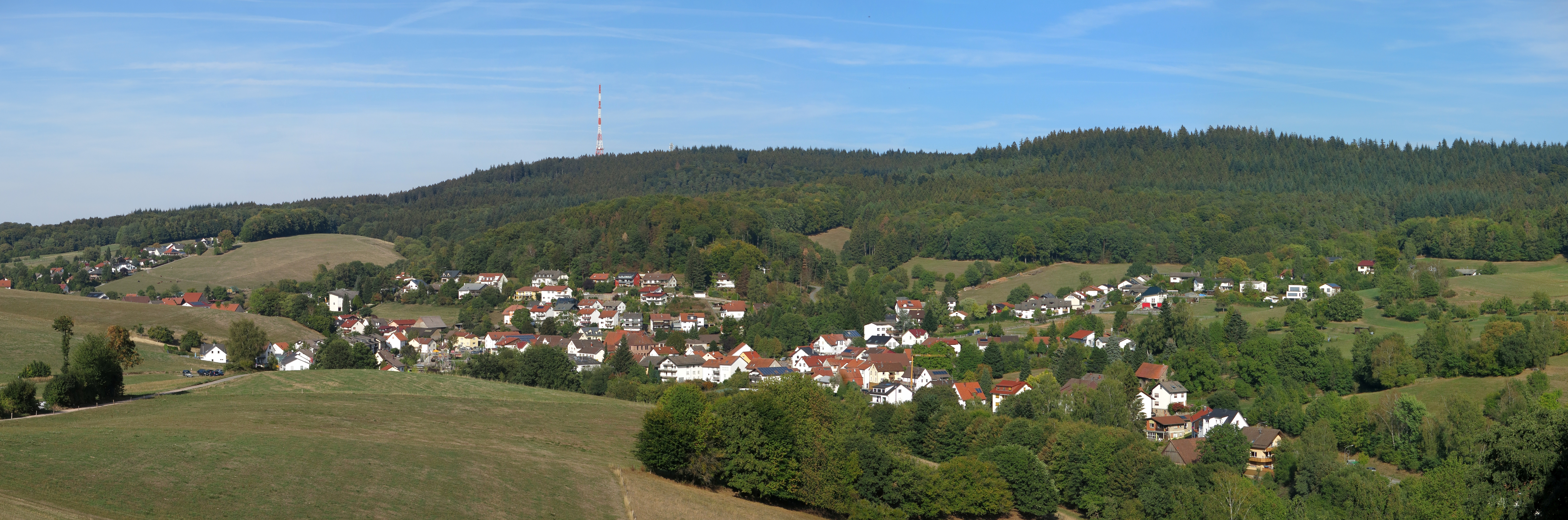 View of Unter-Abtsteinach in the Odenwald, seen from southwest.